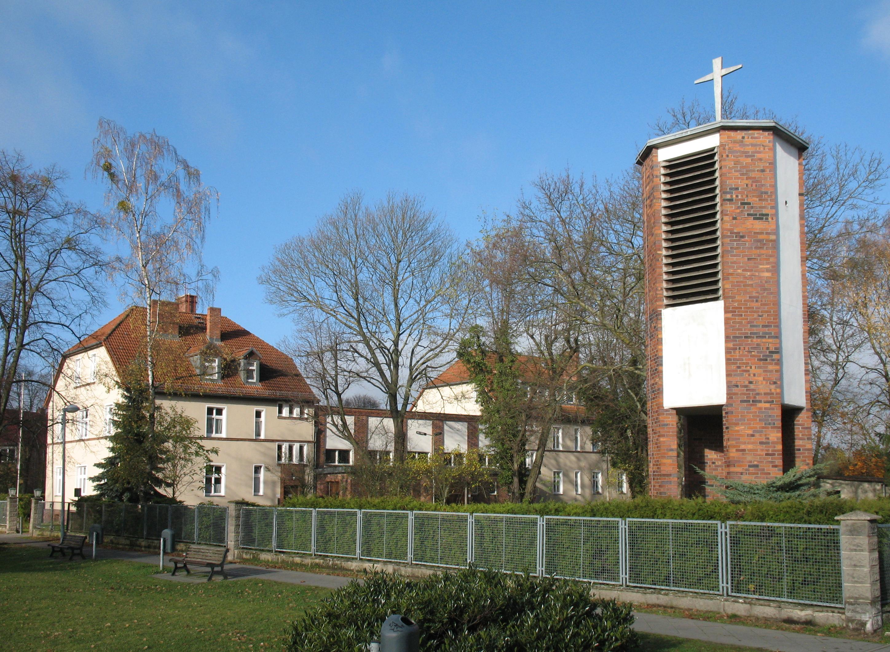 Catholic Church in Hennigsdorf in Brandenburg, Germany